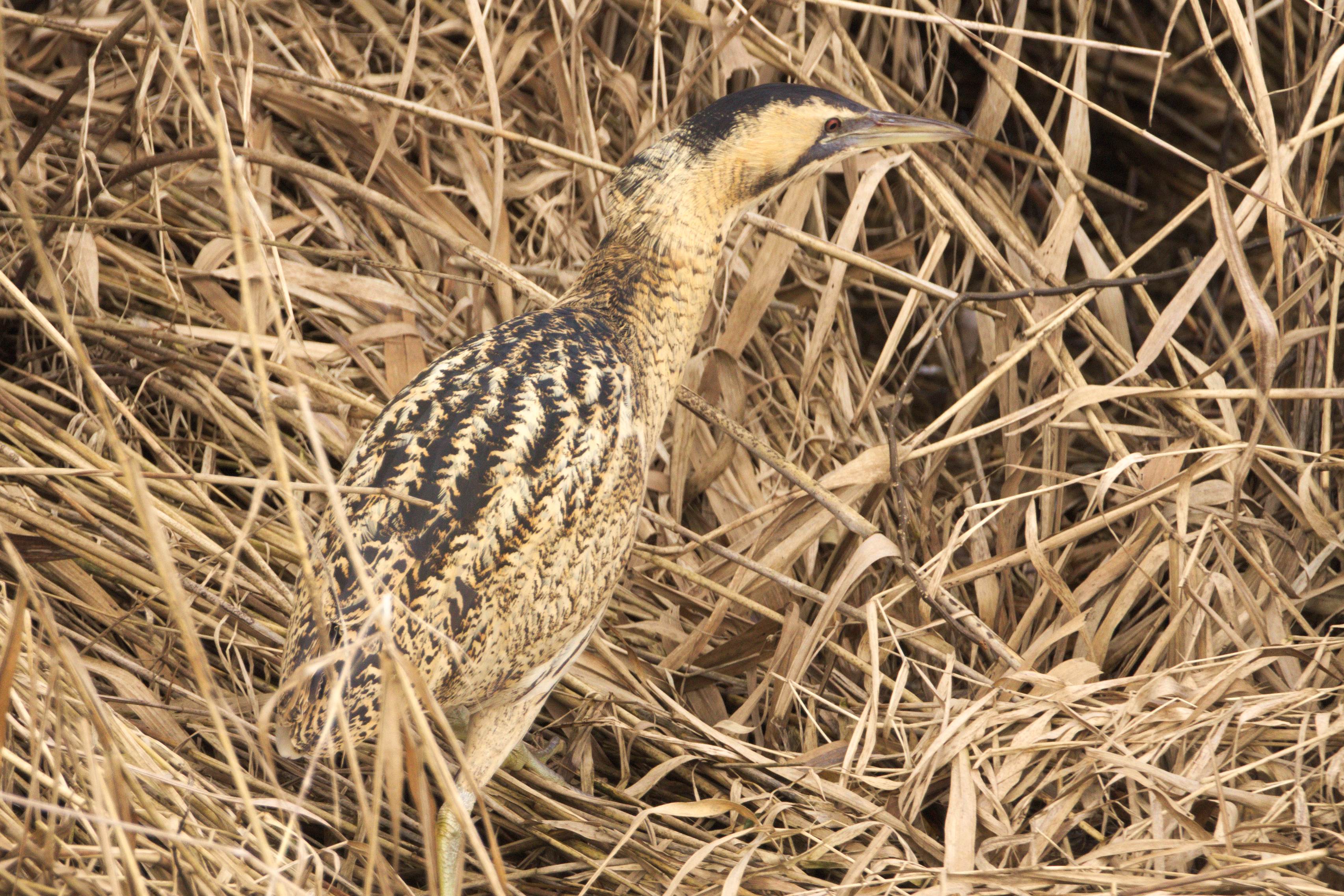 European Bittern (Botaurus stellaris)